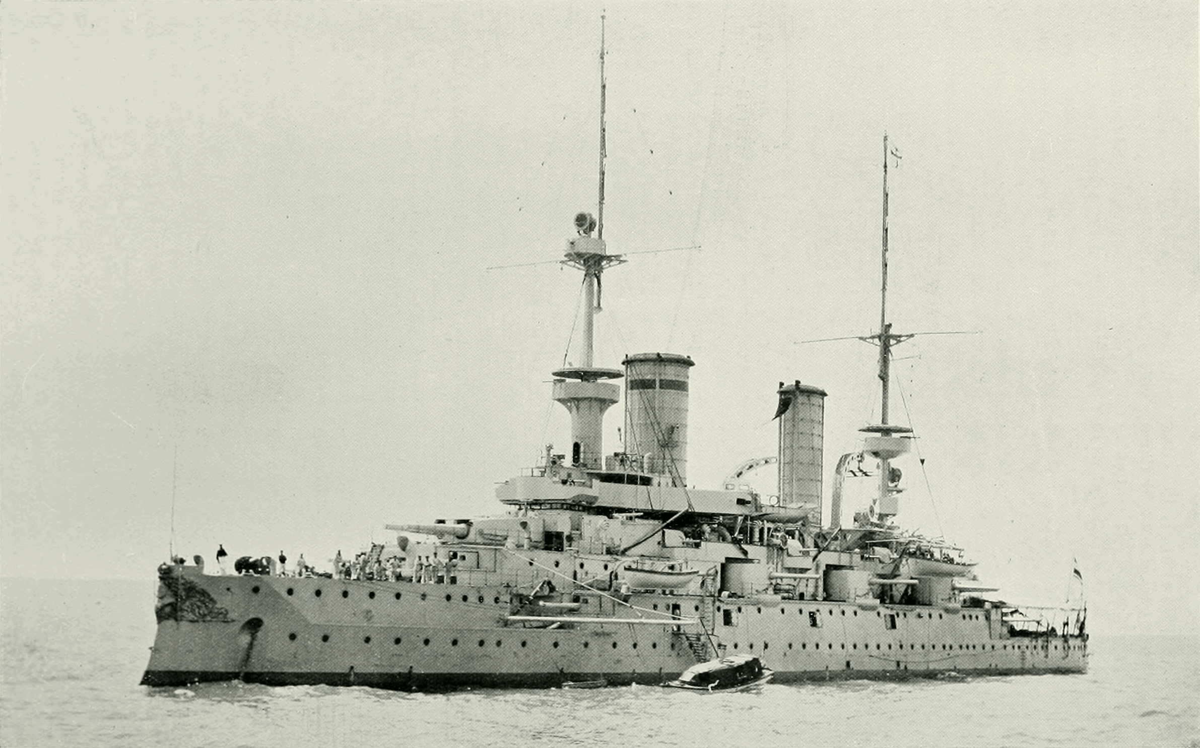 Photo of the German battleship Kaiser Friedrich III in Page's Magazine No. 2 from 1902. The German Navy was described in "Naval Notes" on page 177, accompanied by this photo on page 174.